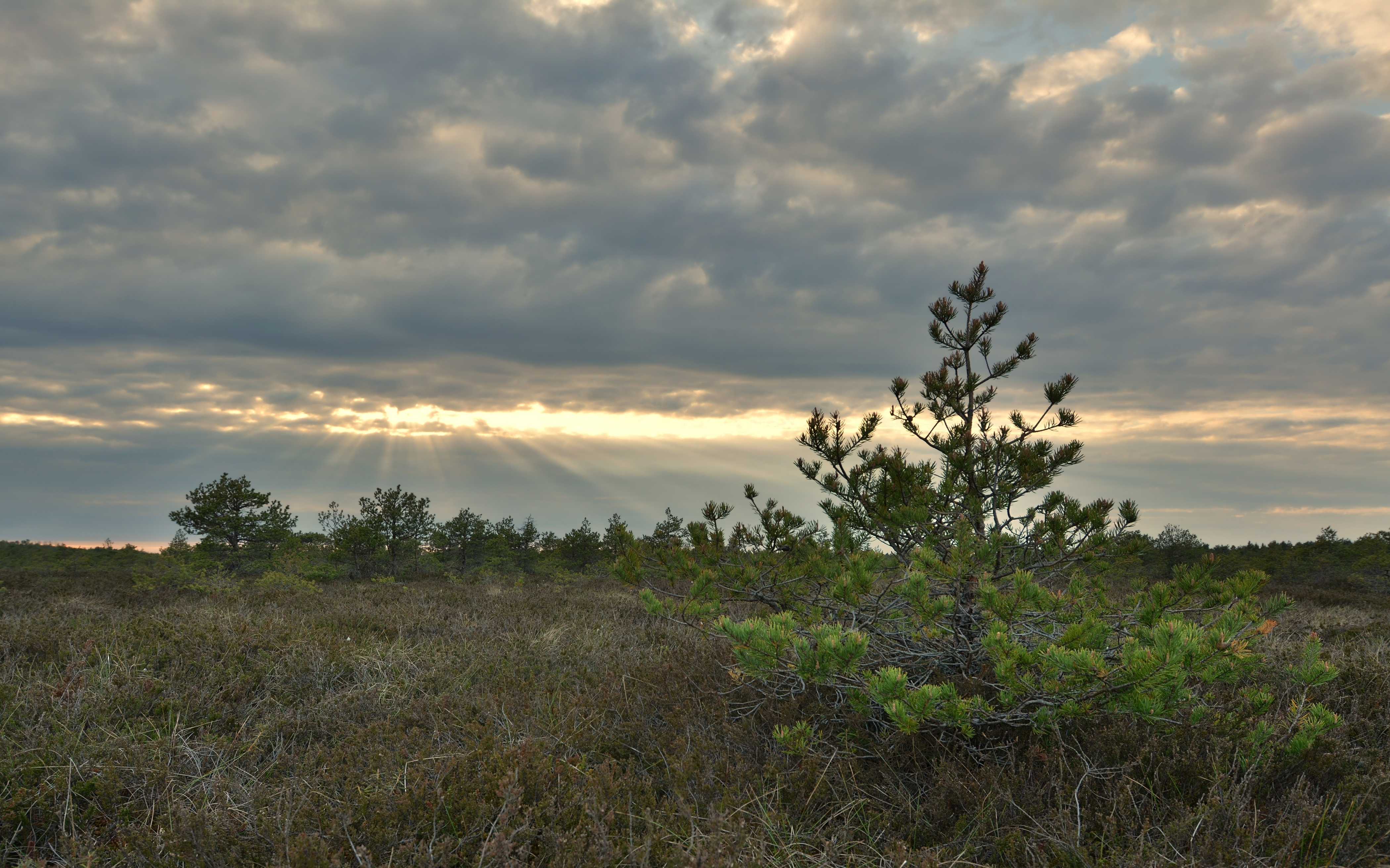 Pinus sylvestris in Tõlinõmme bog, Vääna Landscape reserve, Northwestern Estonia.